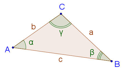 nomenclature of the triangle elements